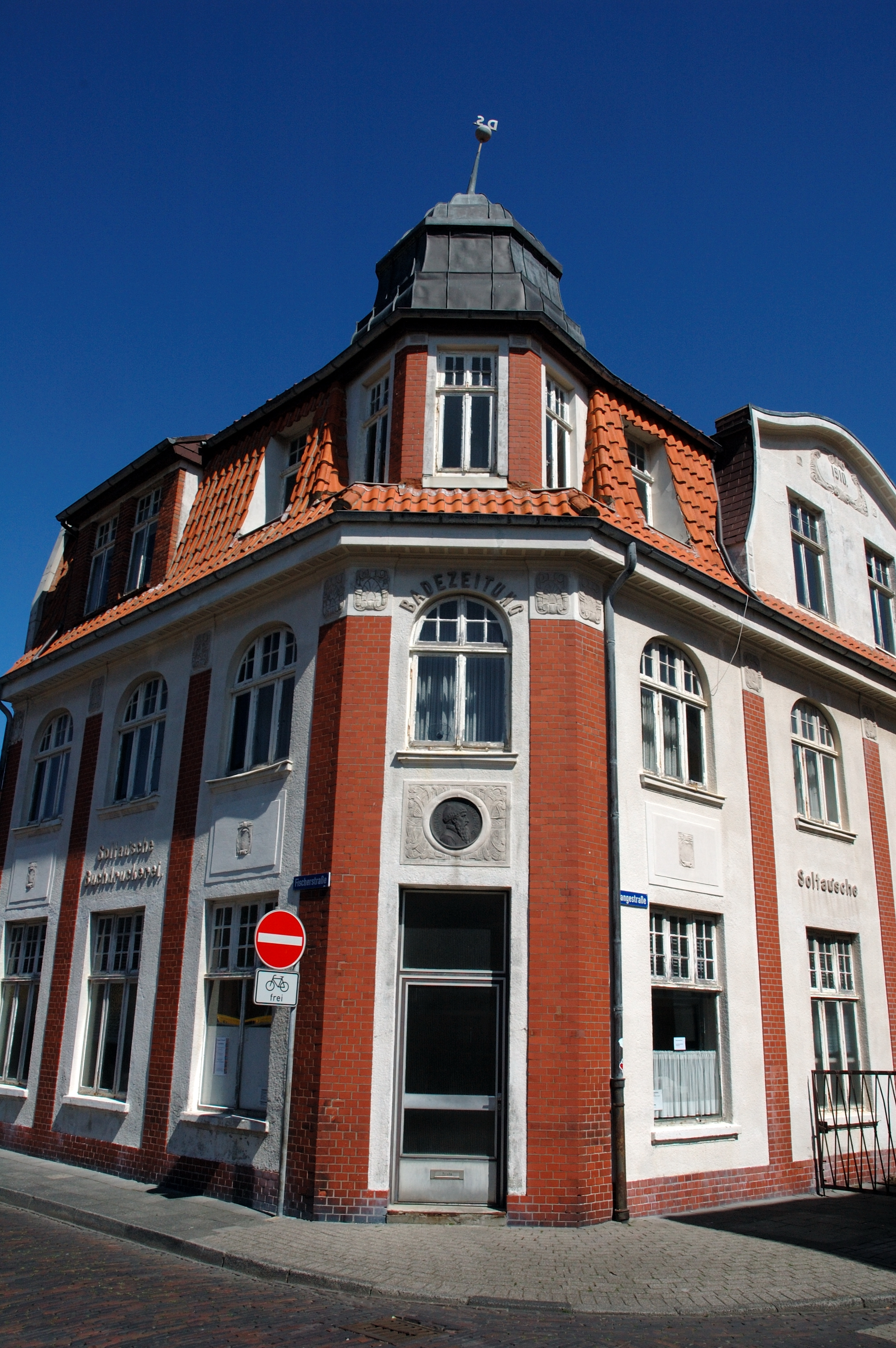 Former Soltau printing office on Norderney/Germany